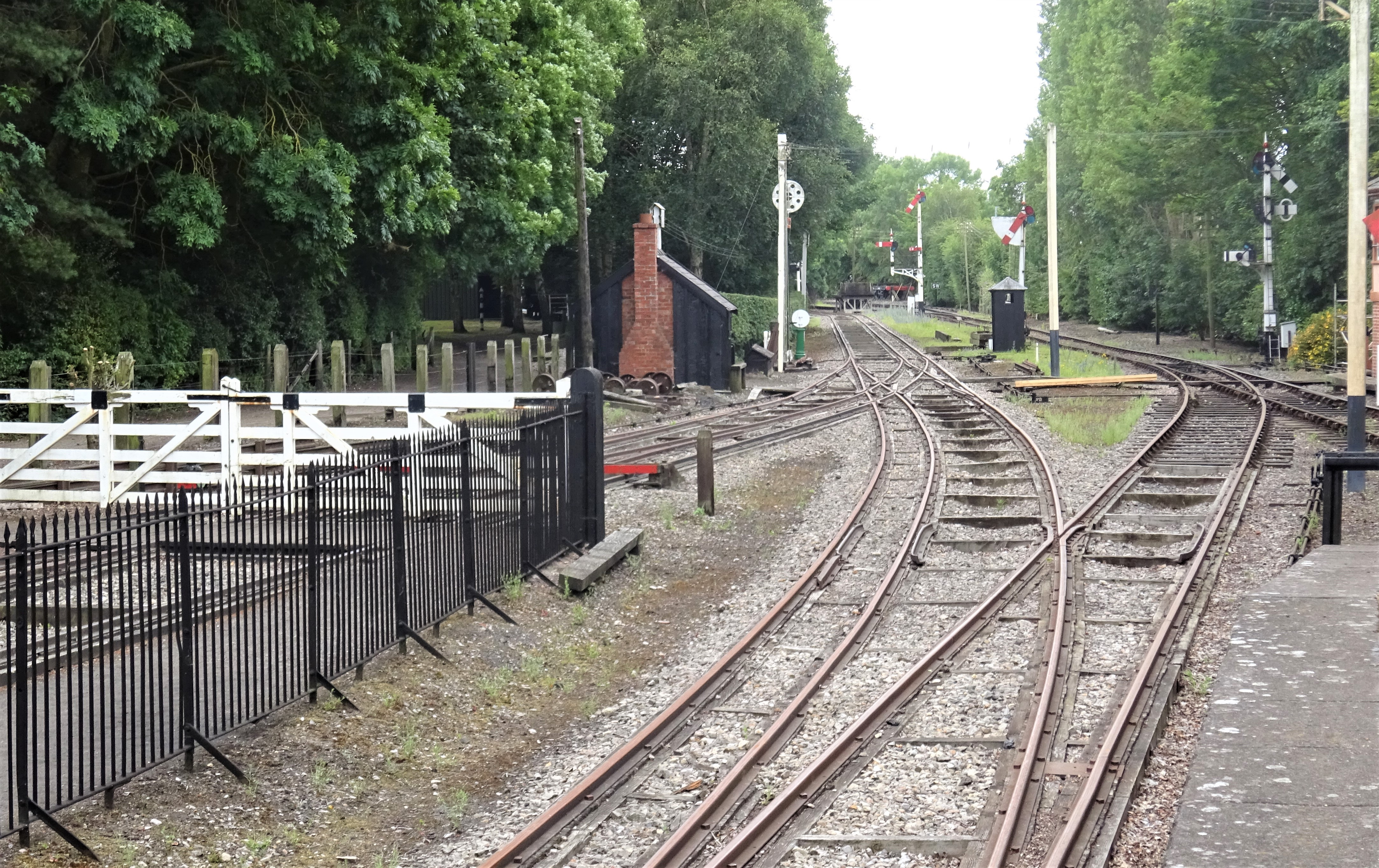 Brunel's Broad Gauge mixed gauge baulk road track, Didcot Railway Centre, Oxfordshire, England.